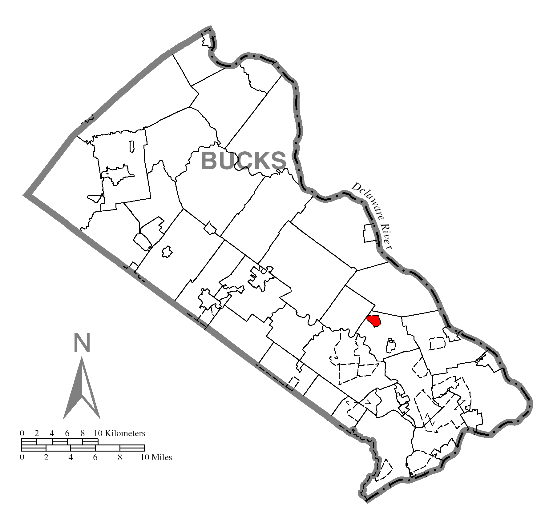 A map of Bucks County showing Newtown Grant, Pennsylvania (alternate) highlighted on the map.